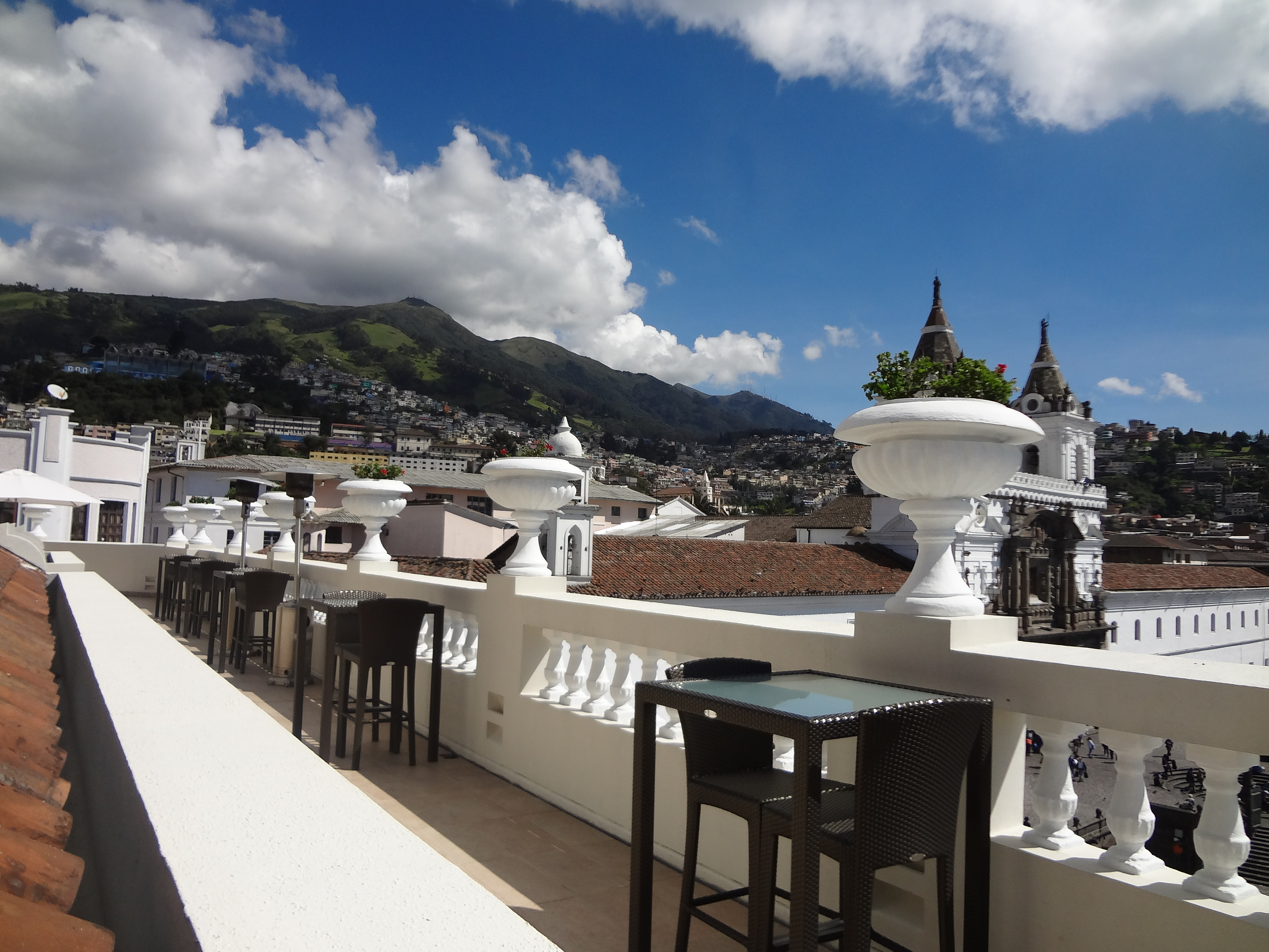 Palacio Gangotena, Quito (roof deck) panoramic view (roof deck view, Pichincha is an active stratovolcano in the country & The Church and Monastery of St. Francis commonly known as el San Francisco, is a 16th-century Roman Catholic complex in Quito, Ecuador. ) El Centro Histórico de Quito Casa Gangotena Hotel Boutique en Quito, es una mansión restaurada y ubicada en el centro histórico de la ciudad. Historic Center of Quito Photography by David Adam Kess